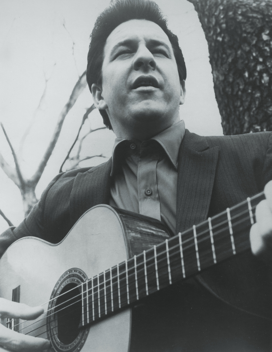 Press photo of Tommy Cash, brother of Johnny Cash.